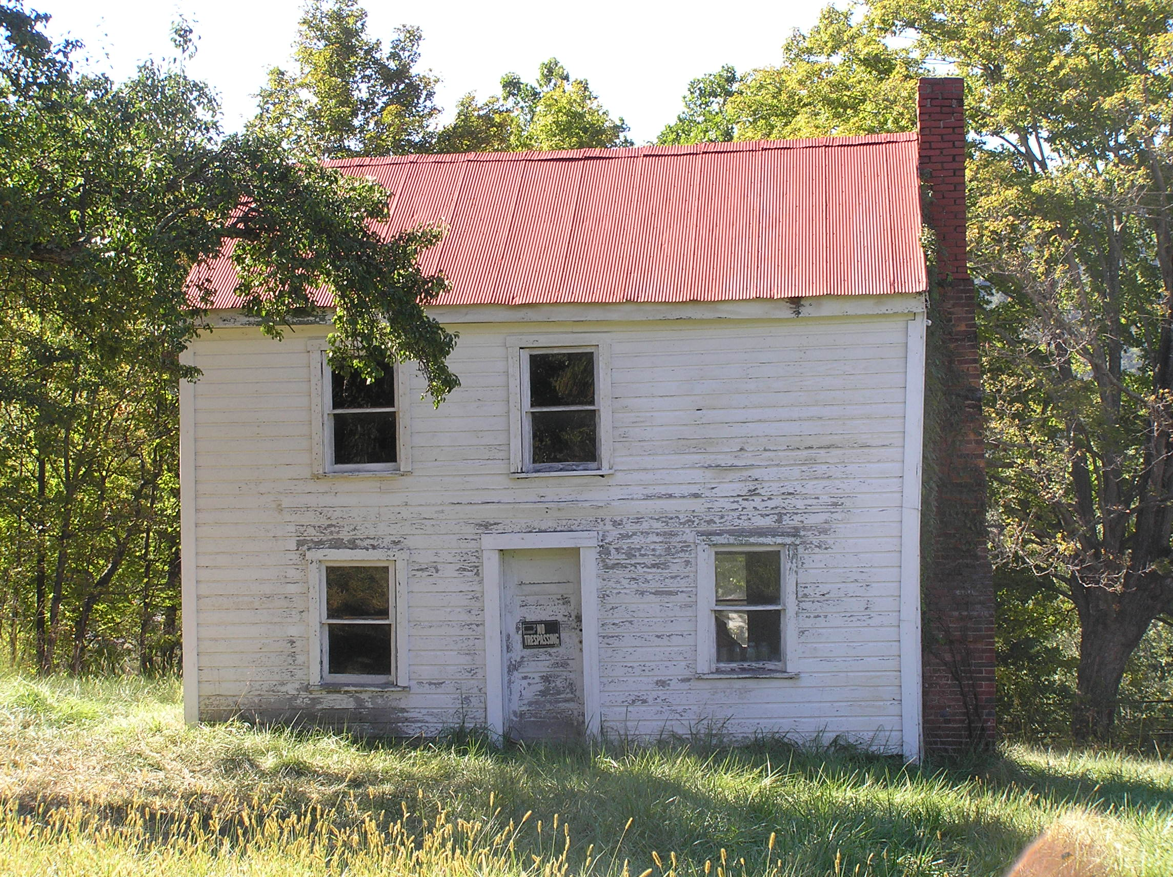 Washington Place (also known as the William Washington House) off of West Virginia Route 28 in Romney, West Virginia, United States.